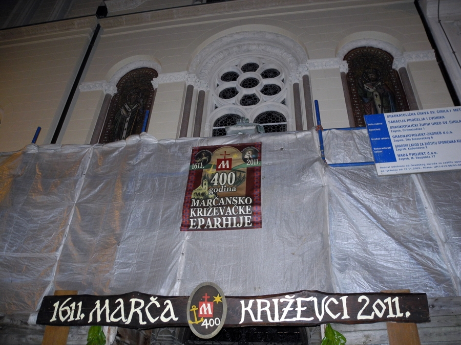 Greek Catholic St. Cyril and St. Method church in Zagreb